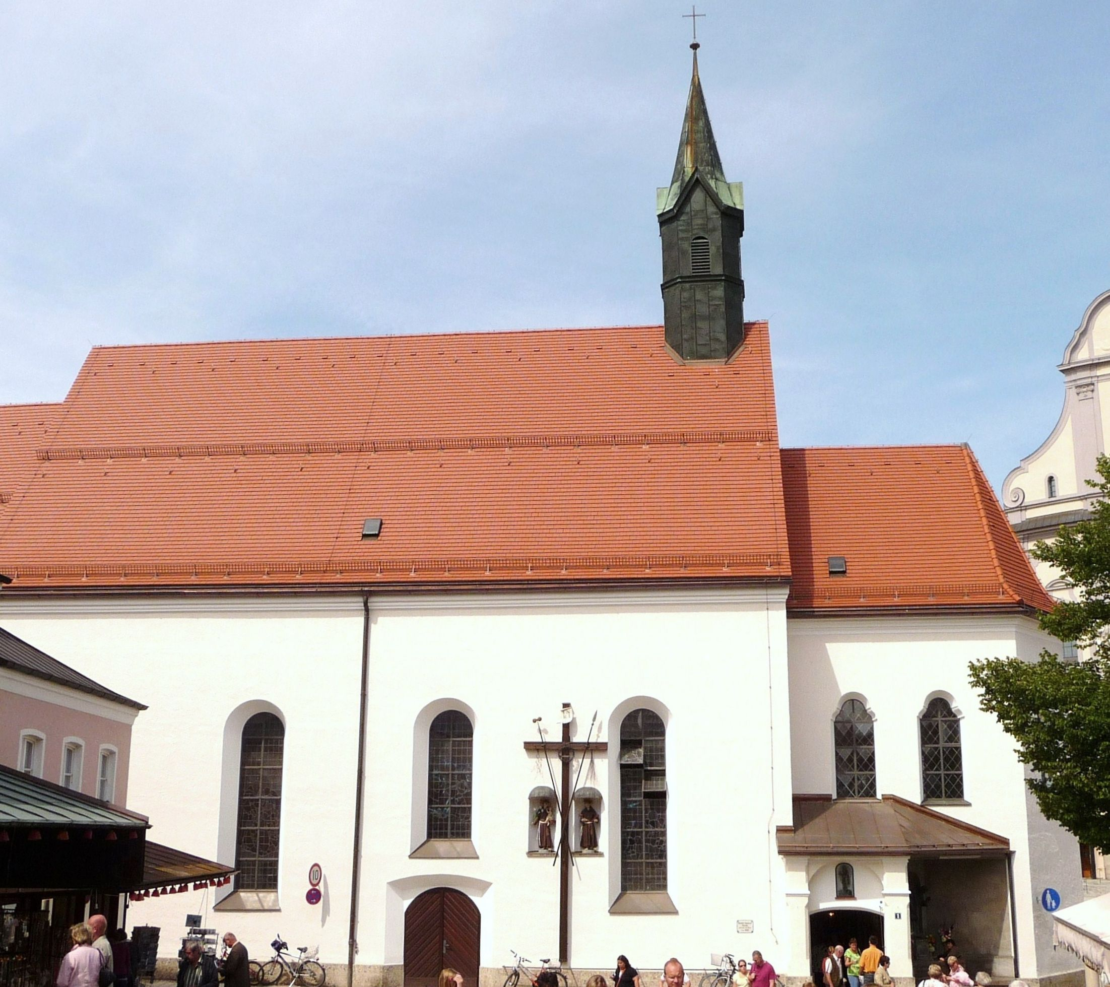 Altötting, Church of St Conrad of Parzham as seen from south-east (Kapuzinerstraße).